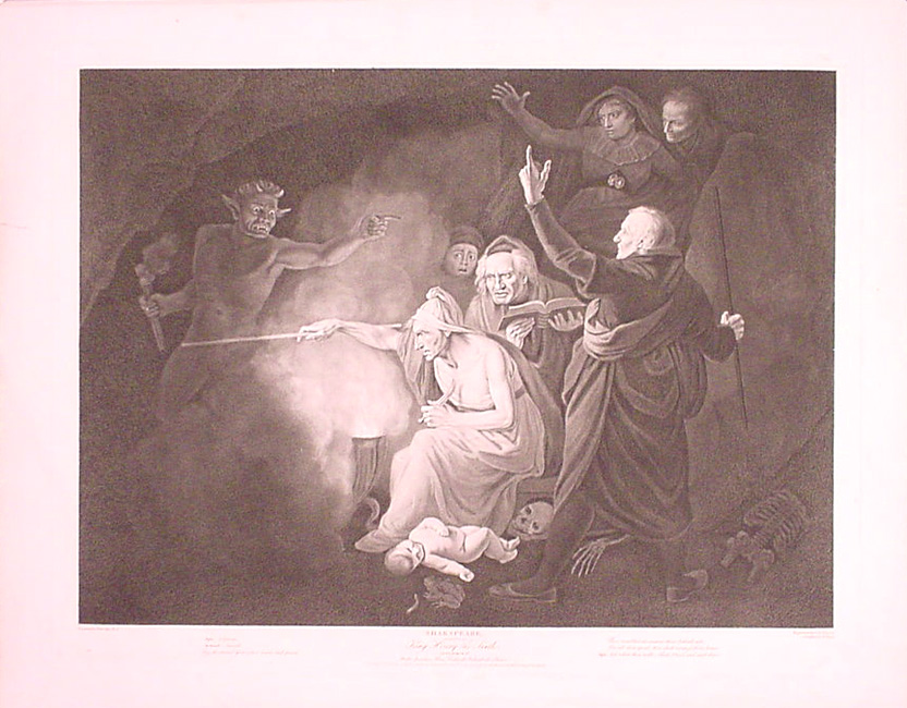 The conjuration from Henry VI (Act 1, Scene 4)